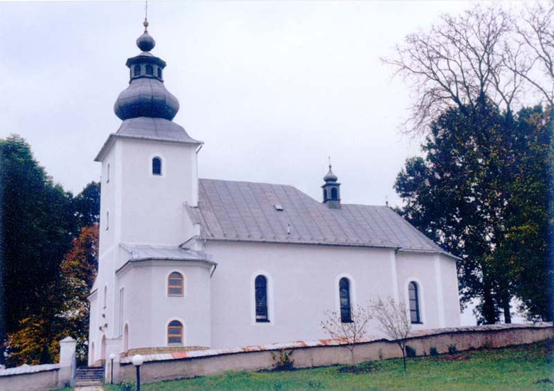 Povysenia sv.Kriza Church (Hazlin)